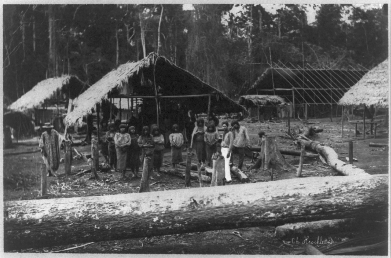 Title: Indian rubber gatherers on the upper Amazon, Brazil Abstract: Group of Indians and thatched roof buildings. Physical description: 1 photographic print. Notes: LOT subdivision subject: Brazil.; Photograph by Ch. Hroehle.; Title and other information transcribed from caption card and item.; Frank and Frances Carpenter Collection (Library of Congress).